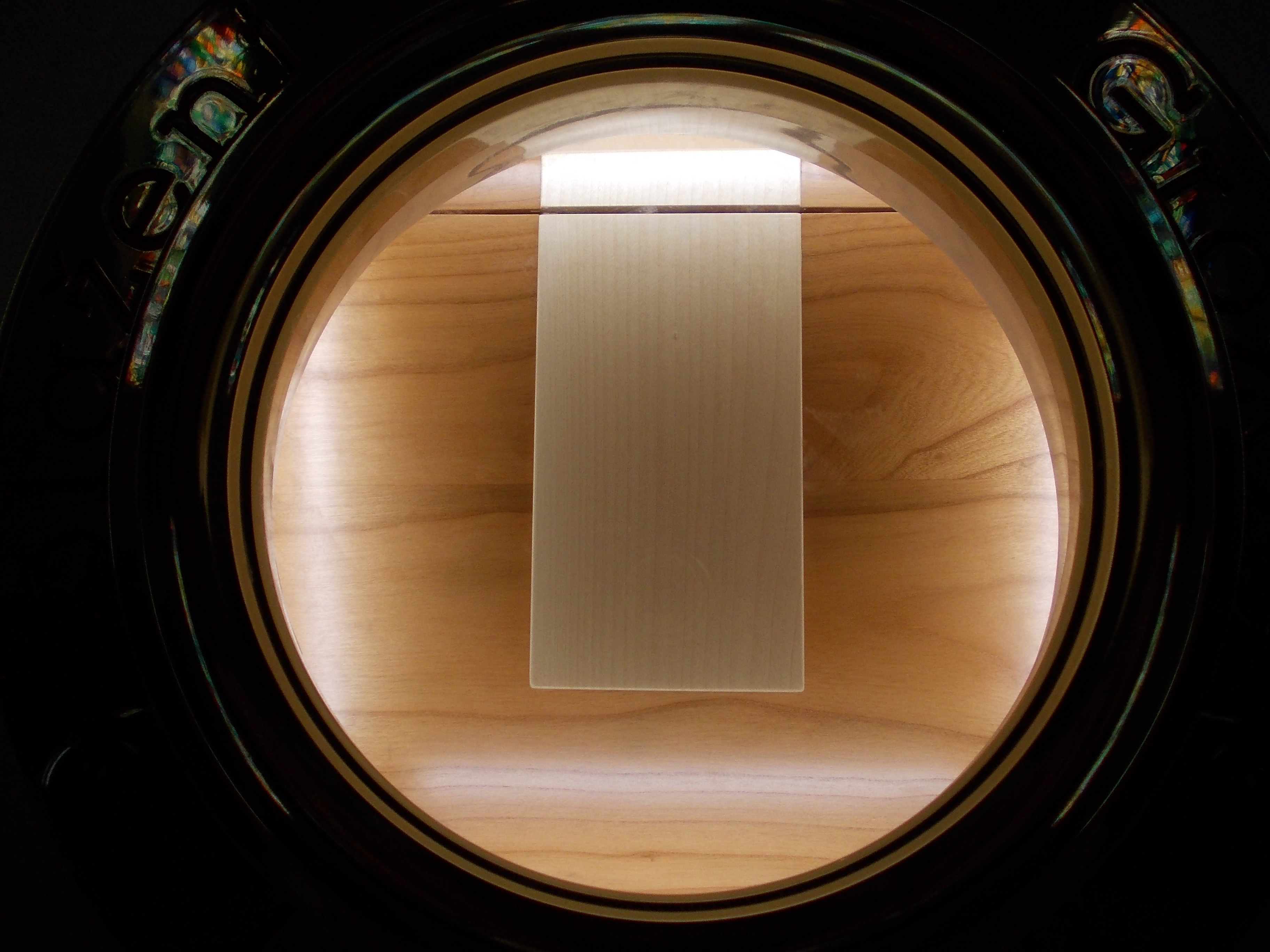 Assumption of Mary Church (Čatež)